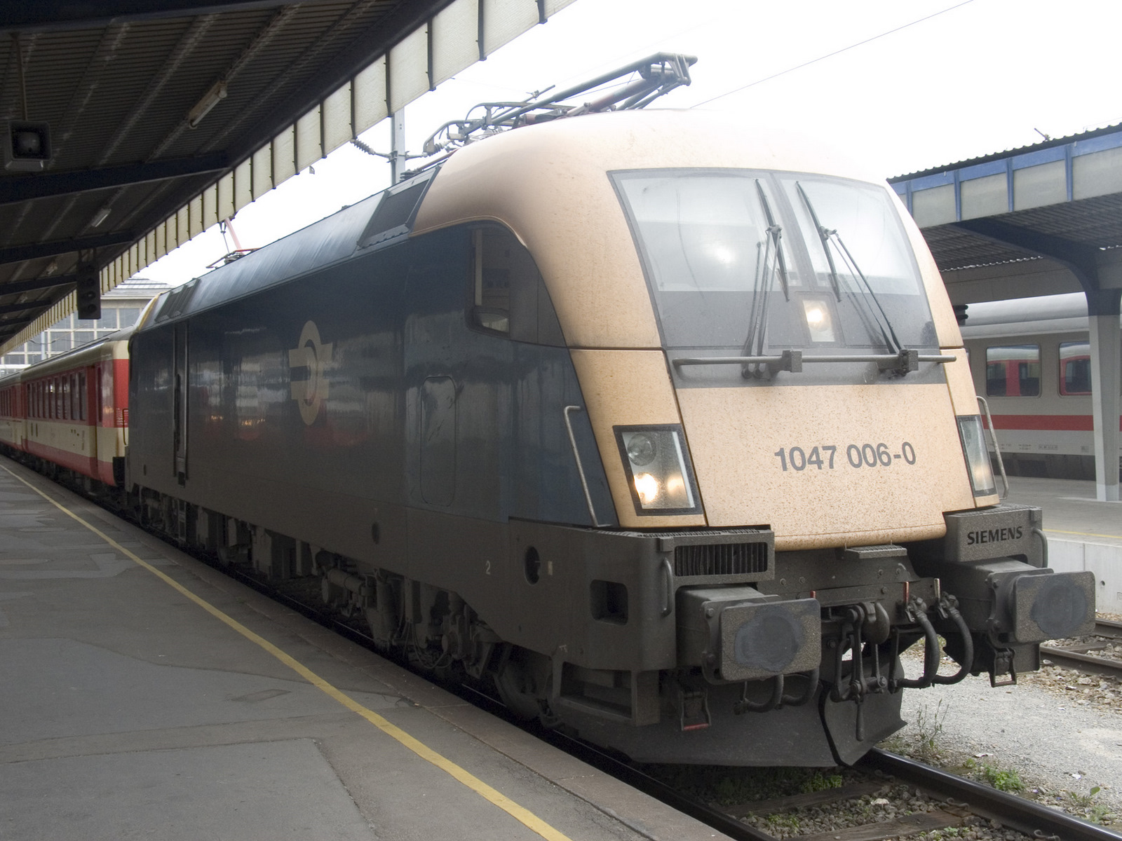 MAV locomotive at Vienna